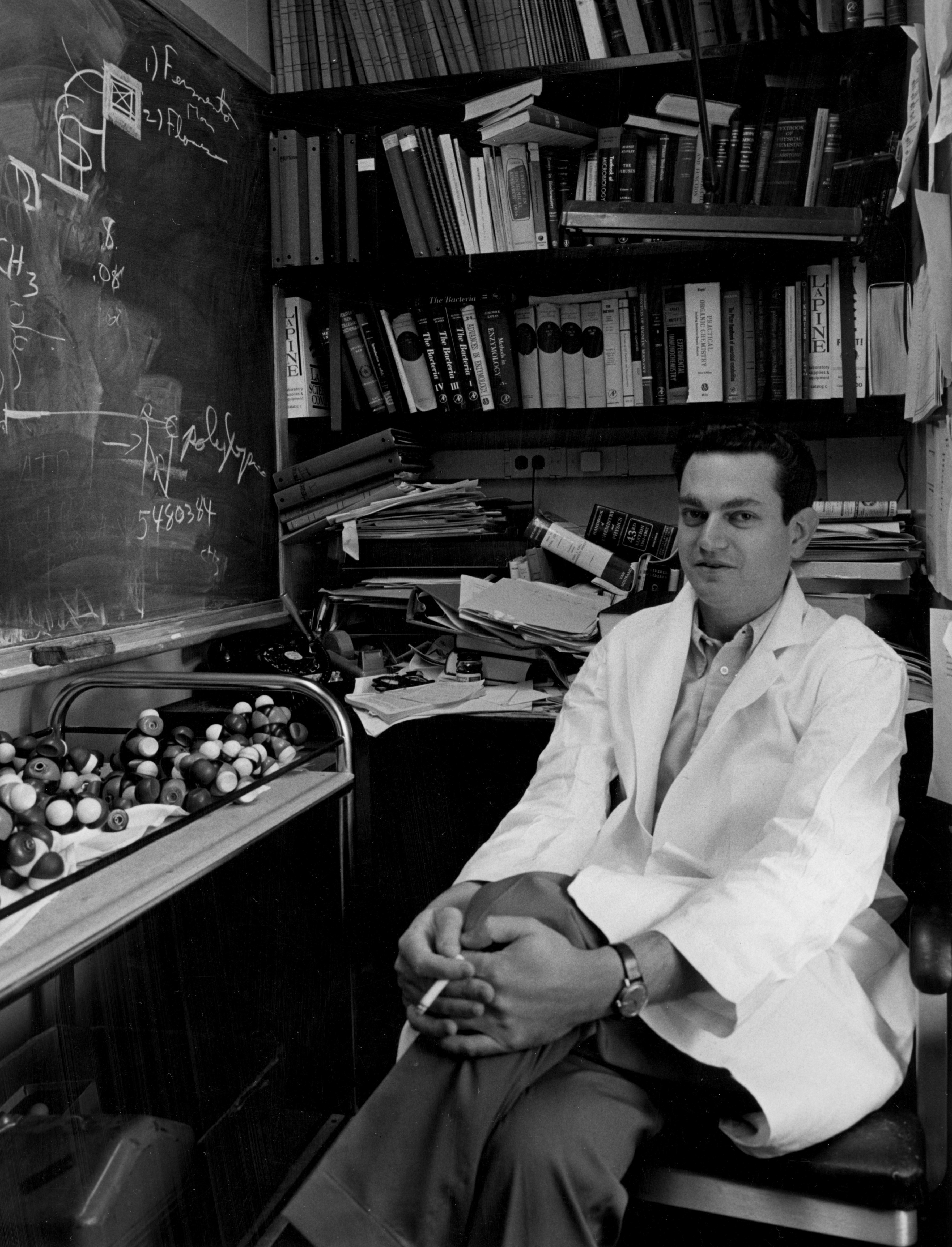 Marshall Nirenberg, taken by the National Institutes of Health, ca. 1962